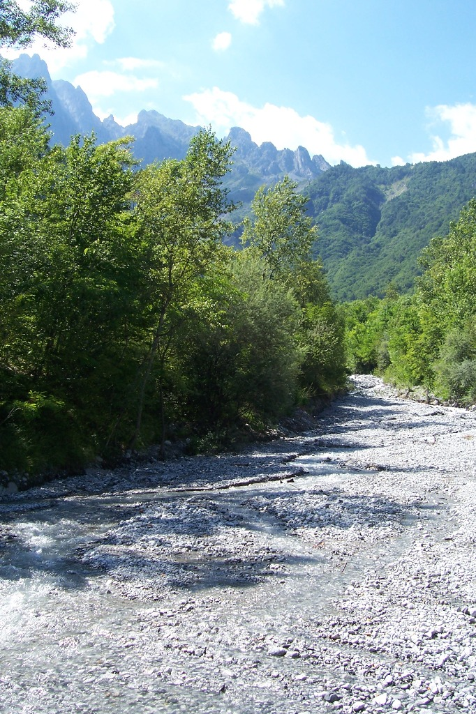 Ble, Ono san Pietro, Val Camonica